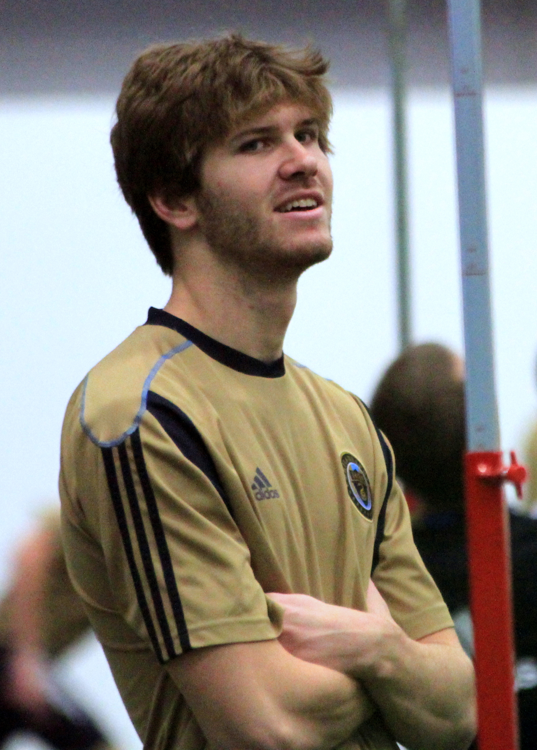 Aaron Wheeler participating in preseason training, with the Philadelphia Union, at YSC Sports in Wayne. January 27, 2011.